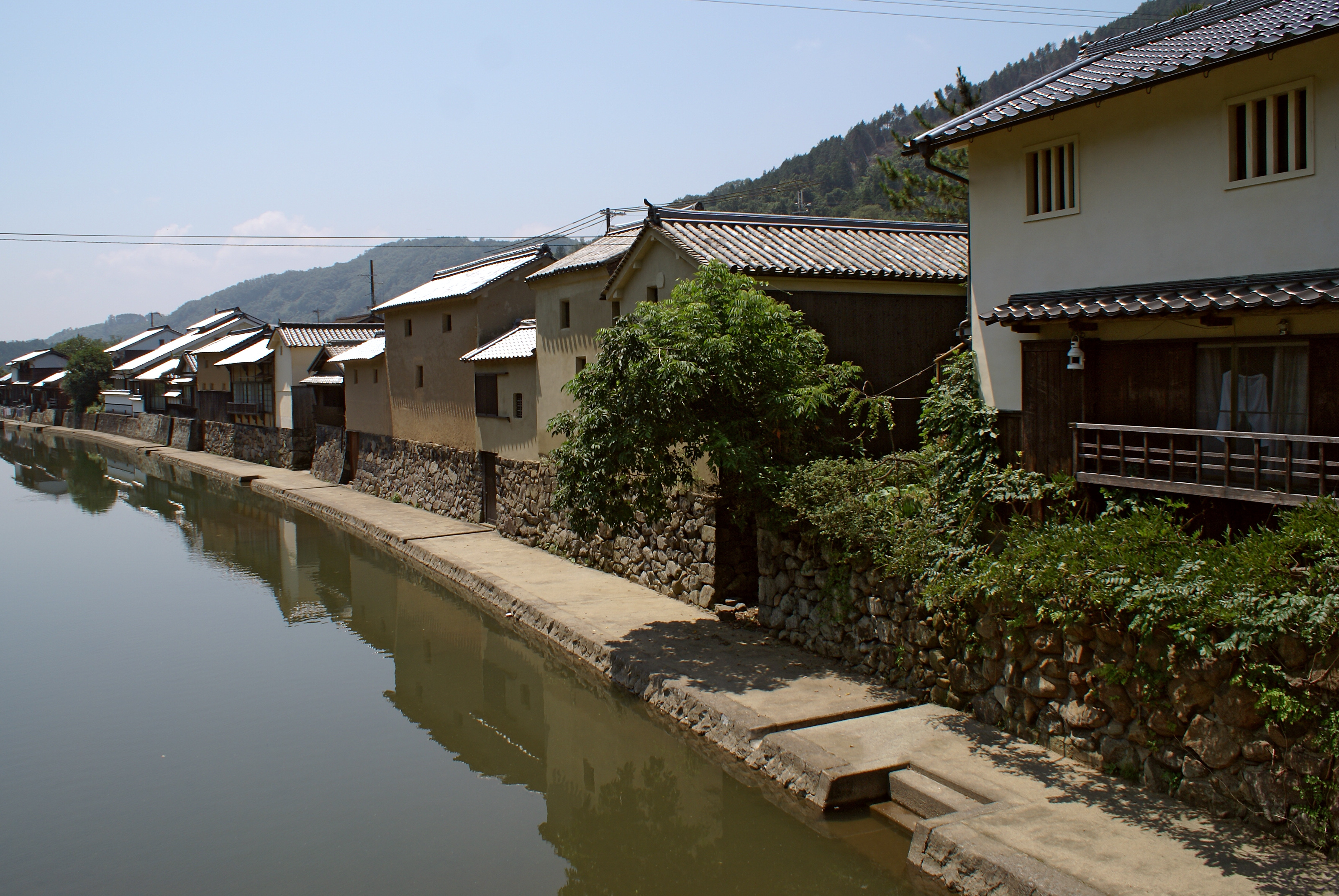 Scenery of the ridge of Sayo river in Hirafuku, Sayo, Hyogo prefecture, Japan